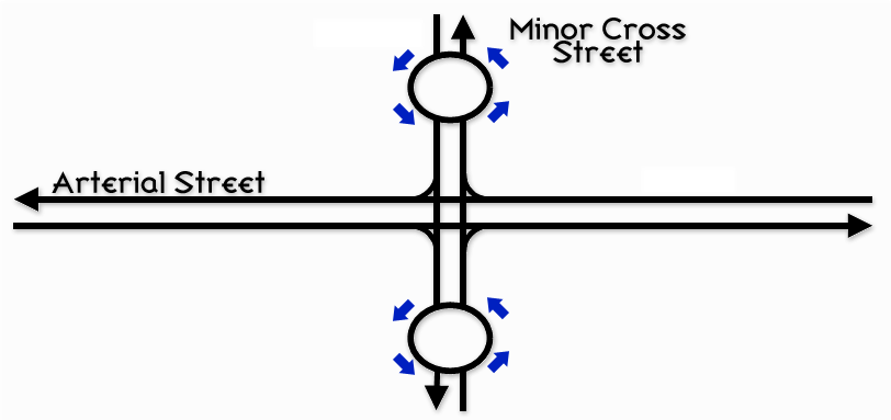 looked at pdf with similar image - made new png using photoshop - includes differences in style, format, and look - my own work